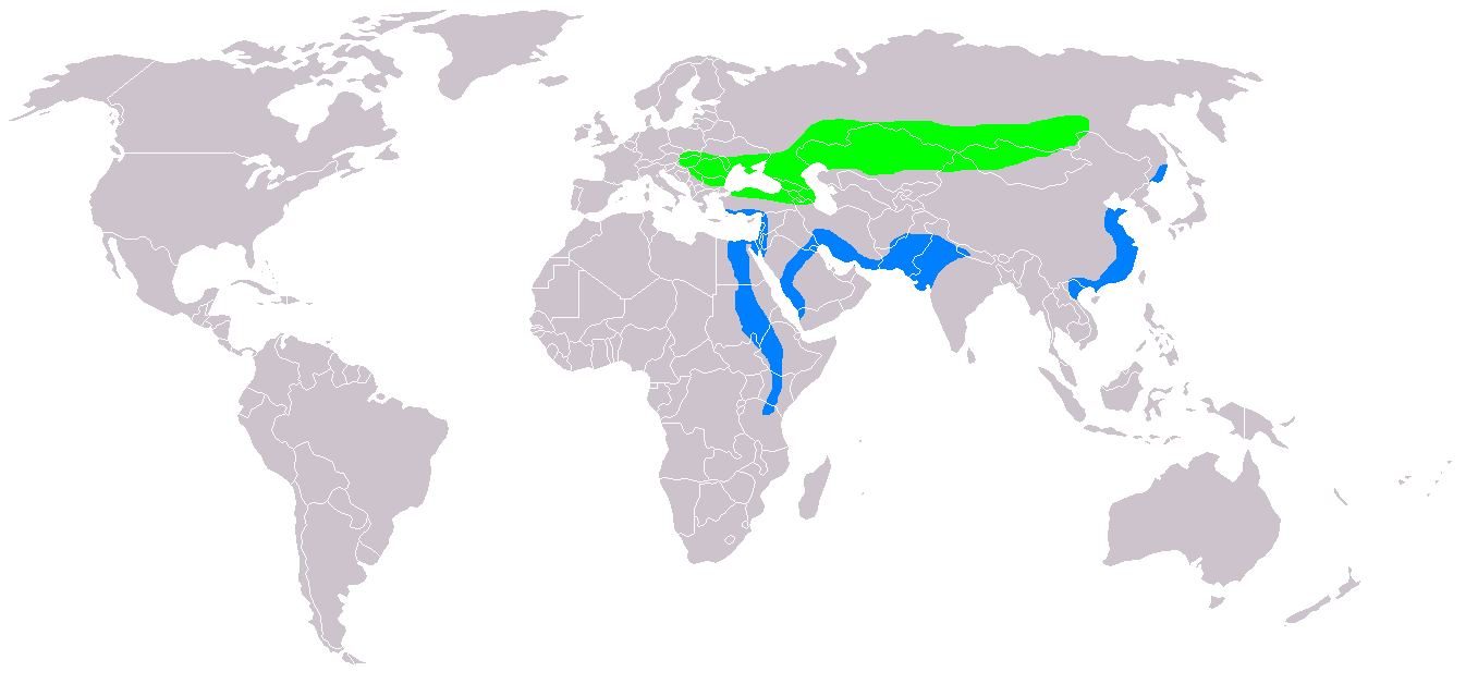 Distribution of Aquila heliaca nesting area resident all year wintering area